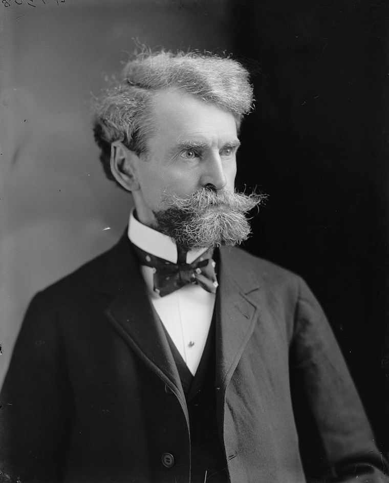 CLARK, W.A. SENATOR